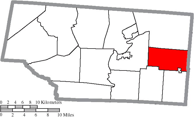 Map of the municipal and township boundaries of Pike County, Ohio, United States, as of the 2000 census, with the location of Beaver Township highlighted. Township borders are shown only in unincorporated areas in order to differentiate incorporated and unincorporated areas more clearly.